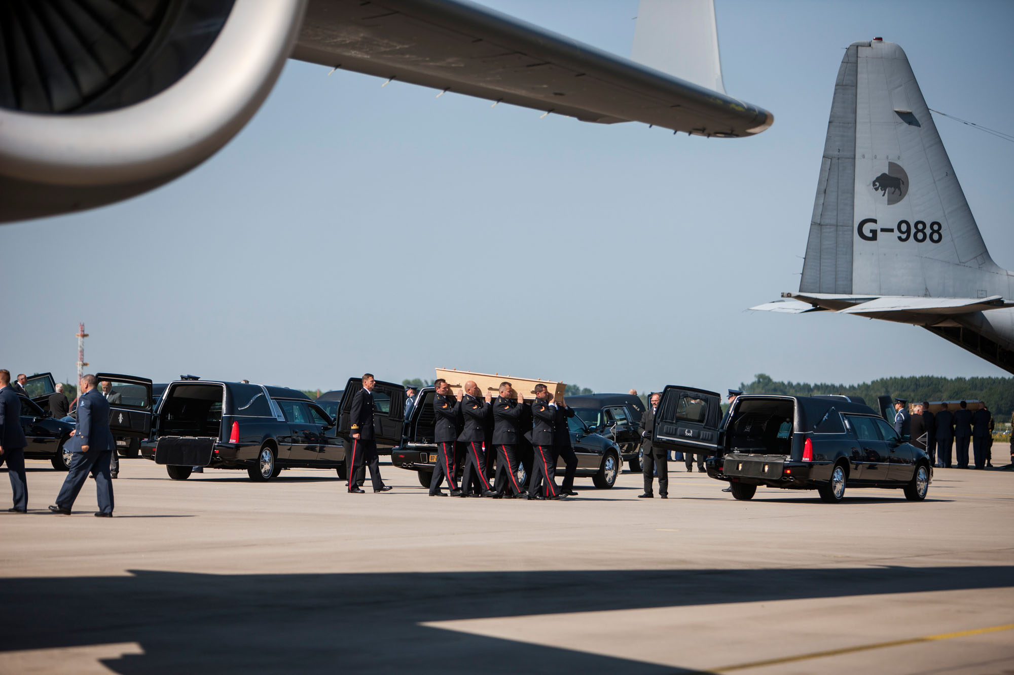 Arrival of corpses of Malaysia Airlines Flight 17 at Eindhoven Air Base.